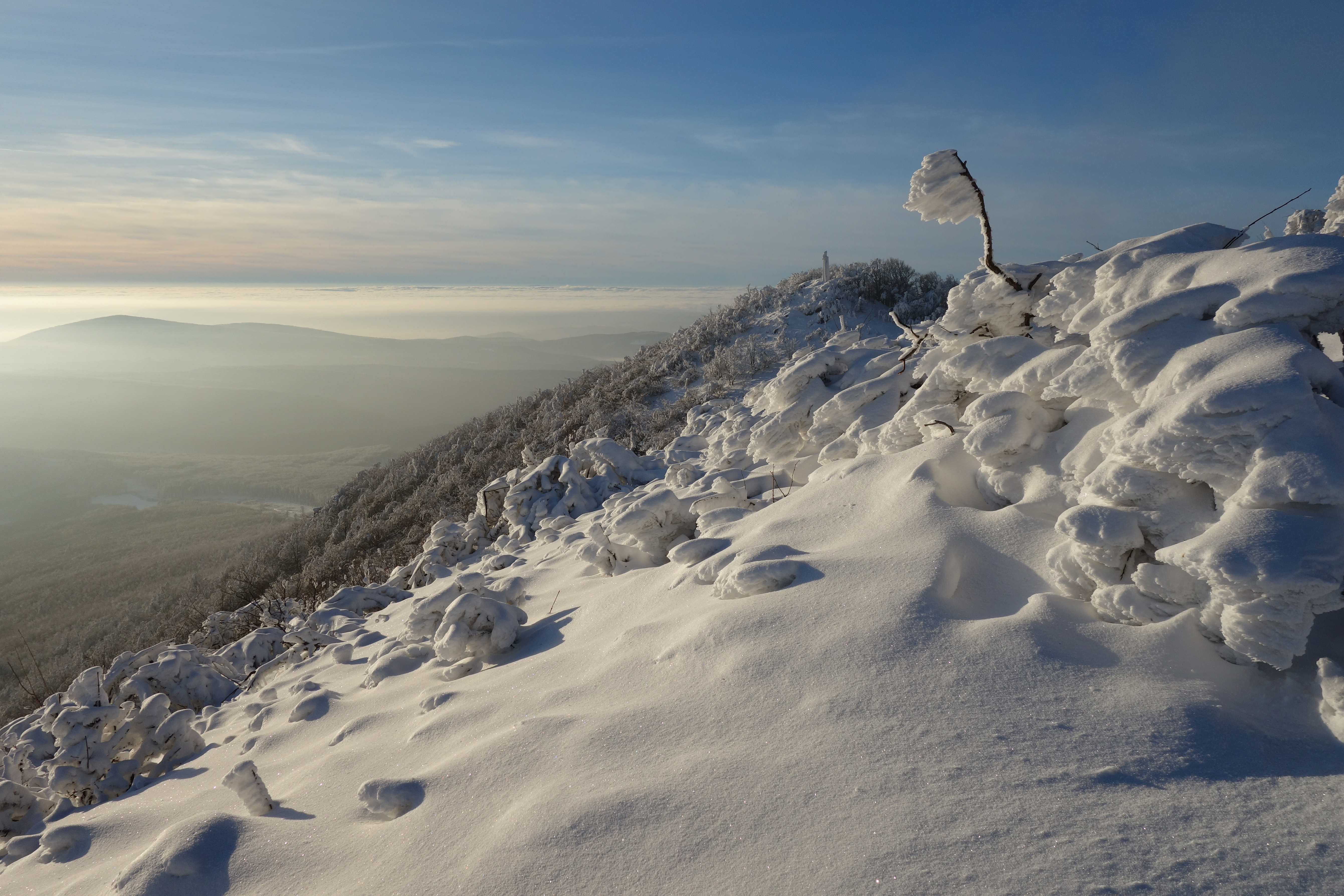 Winter in Vihorlat (1,076 m), the highest mountain of Vihorlat Mountains, Slovakia This is a photography of Natura 2000 protected area with ID SKUEV0025